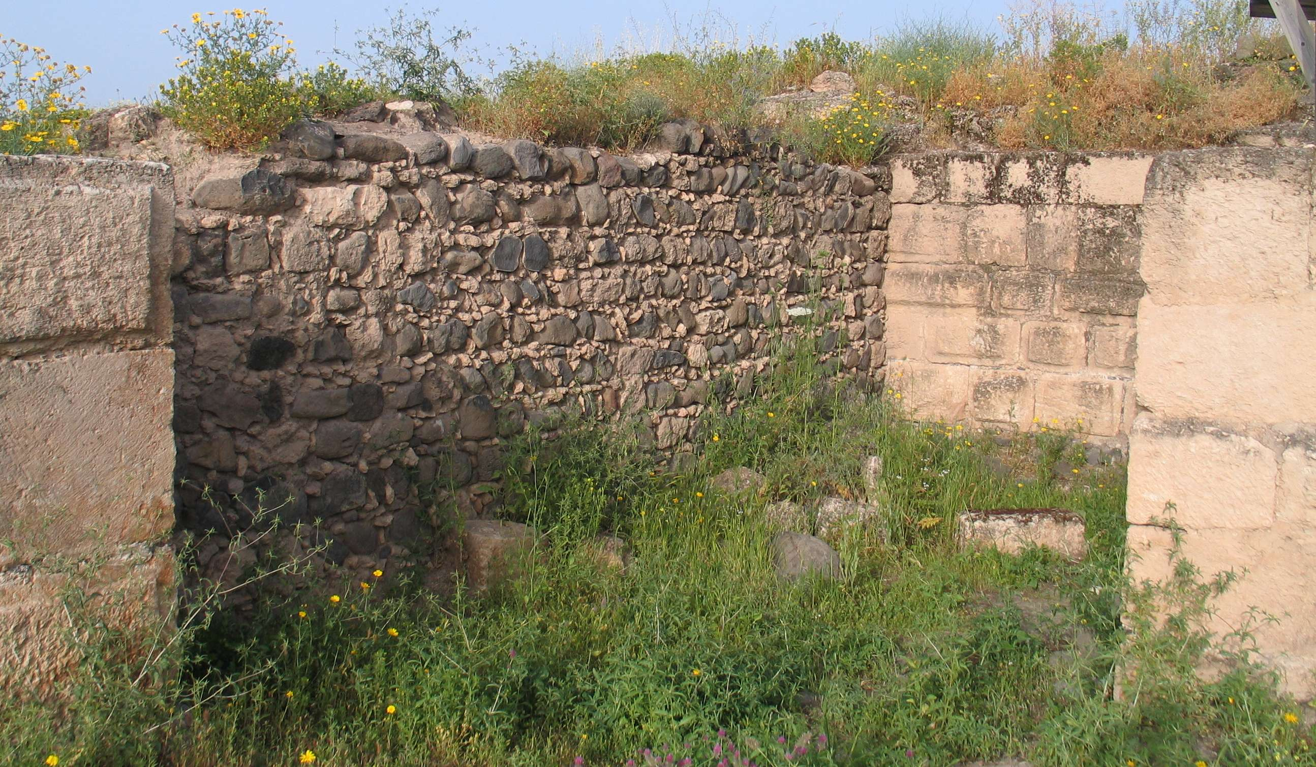 Ateret fortress, Israel.